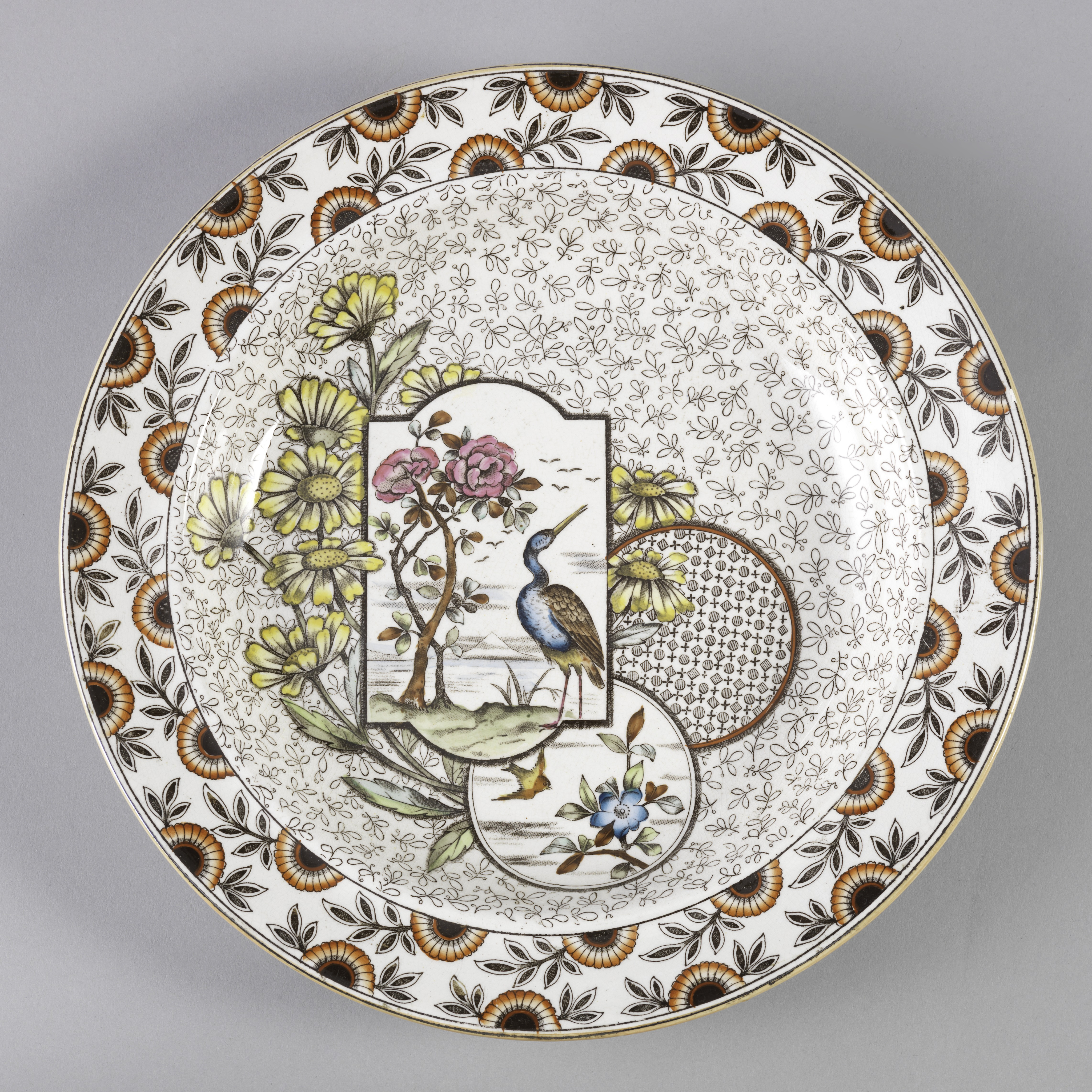 Circular form with slightly concave rim, the white crackled ground with Japanese-inspired transfer printed polychrome decoration: stylized flowers and leaves on rim, the well with a panel and two medallions respectively, showing a crane(?) in landscape, a bird in flight over flowering branch, and a geometric pattern; all superimposed on a sprig of naturalistically rendered yellow flowers on a field of small leafy stems.